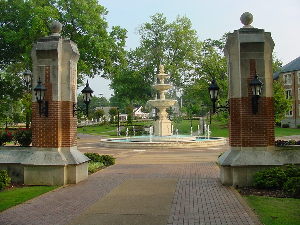 Harrison Plaza fountain — on the University of North Alabama campus in Florence, Alabama. Taken by me in May, 2007.